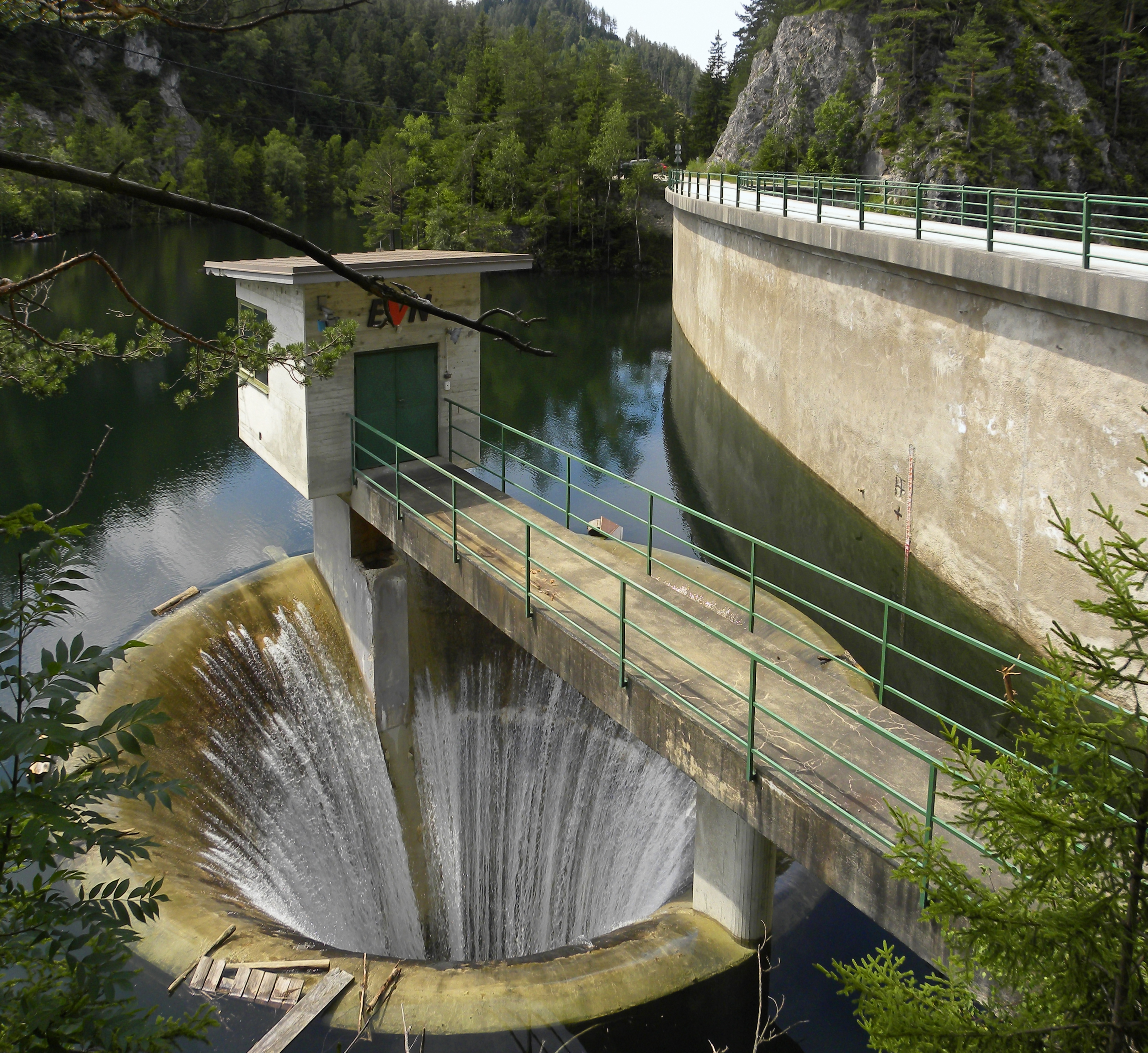 Bell-mouth spillway and concrete dam of Erlauf-Stausee